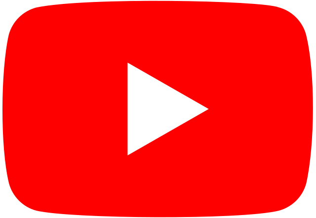 Youtube logo